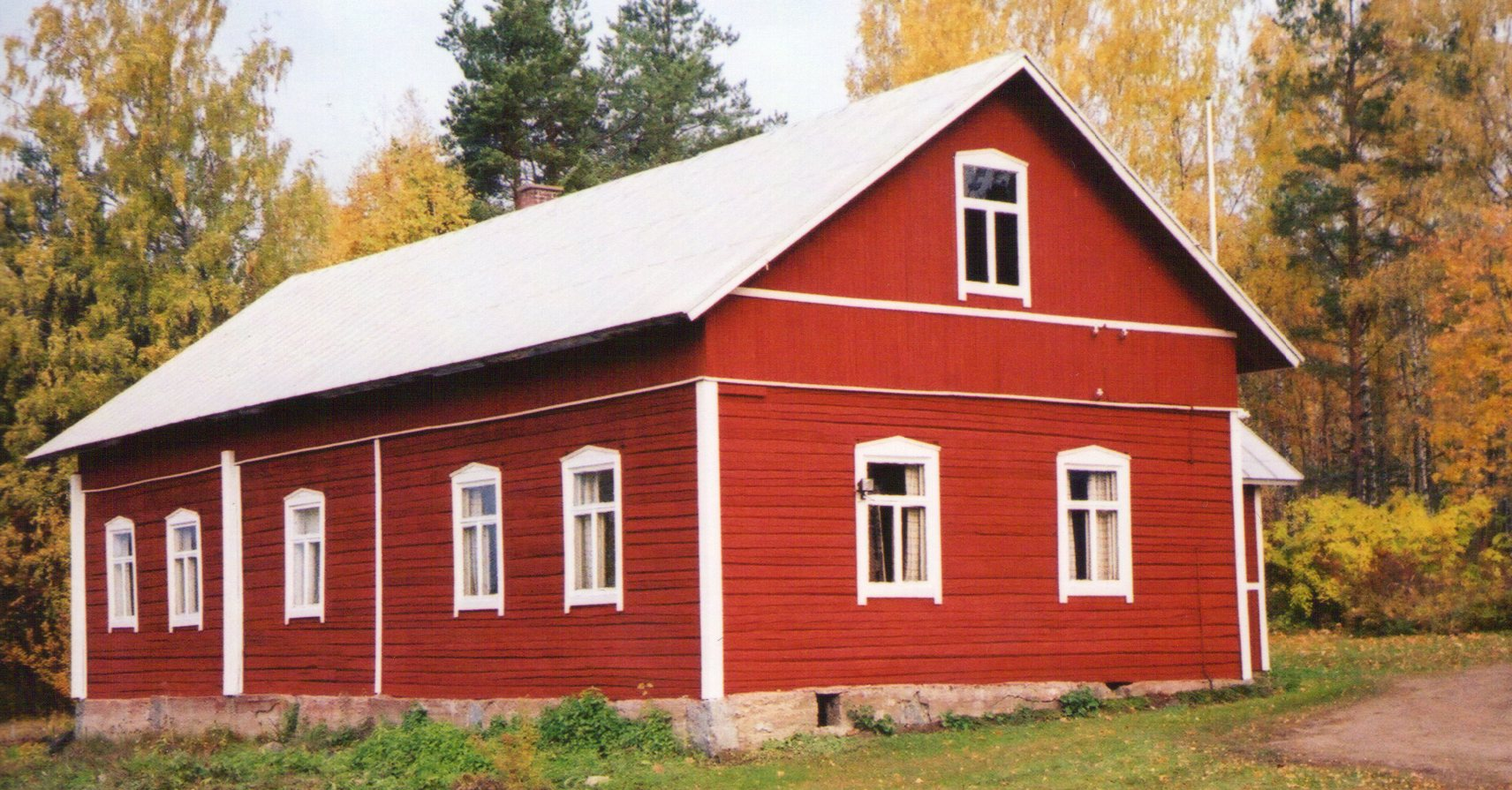 Falu red log building in Äänekoski, Finland